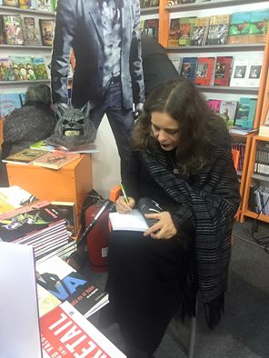 Isabel Sabogal at the Book Fair "Ricardo Palma" in Lima